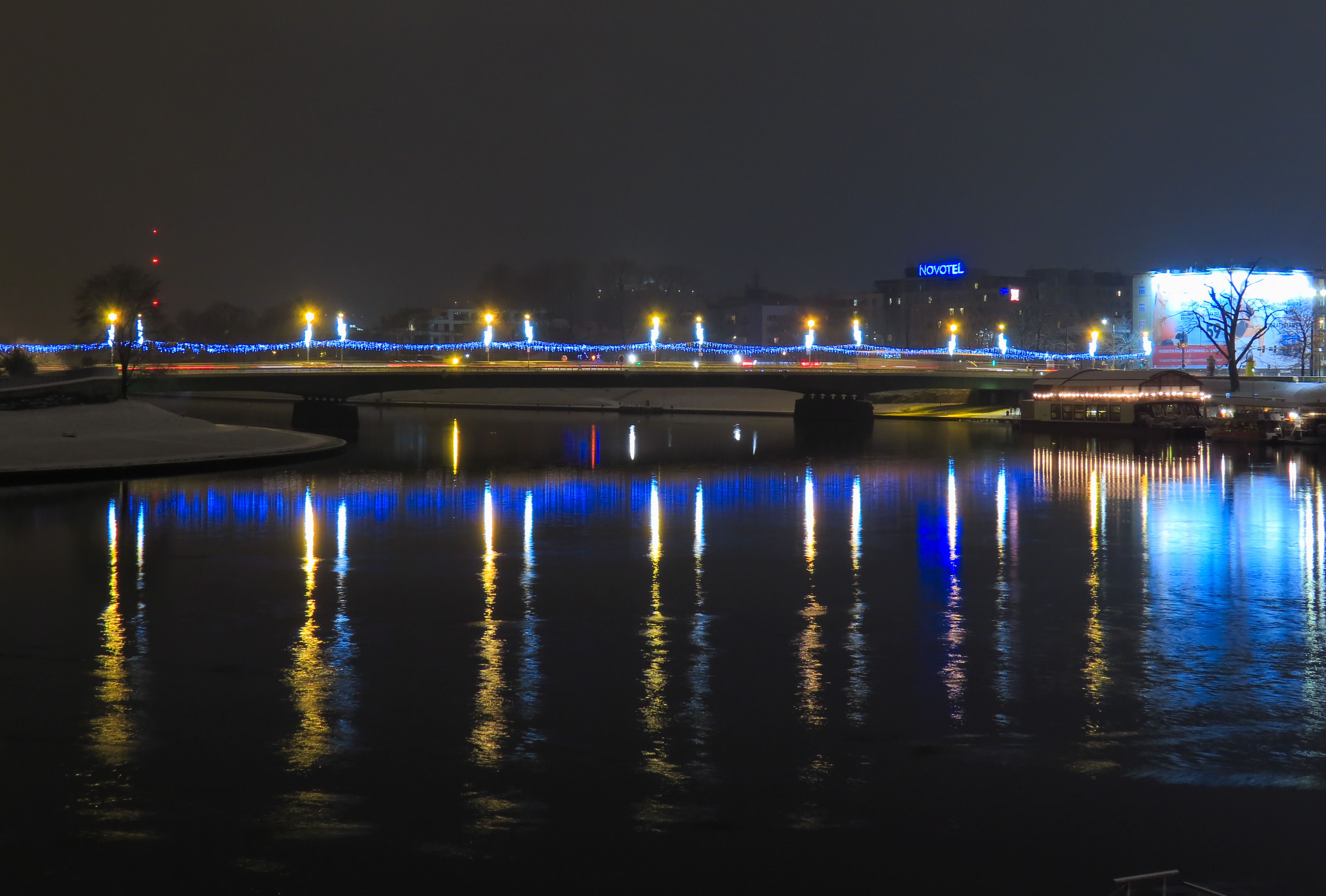 Dębnicki Bridge in Kraków